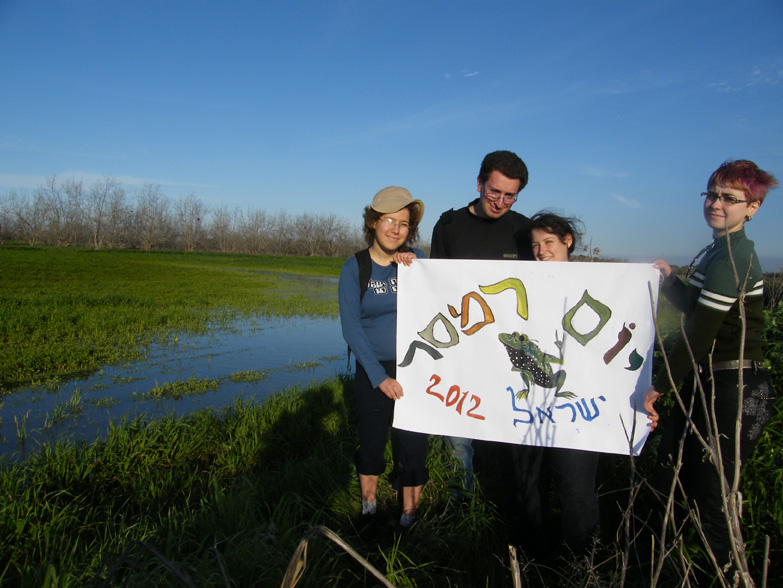 Celebrating World Wetlands Day in Israel